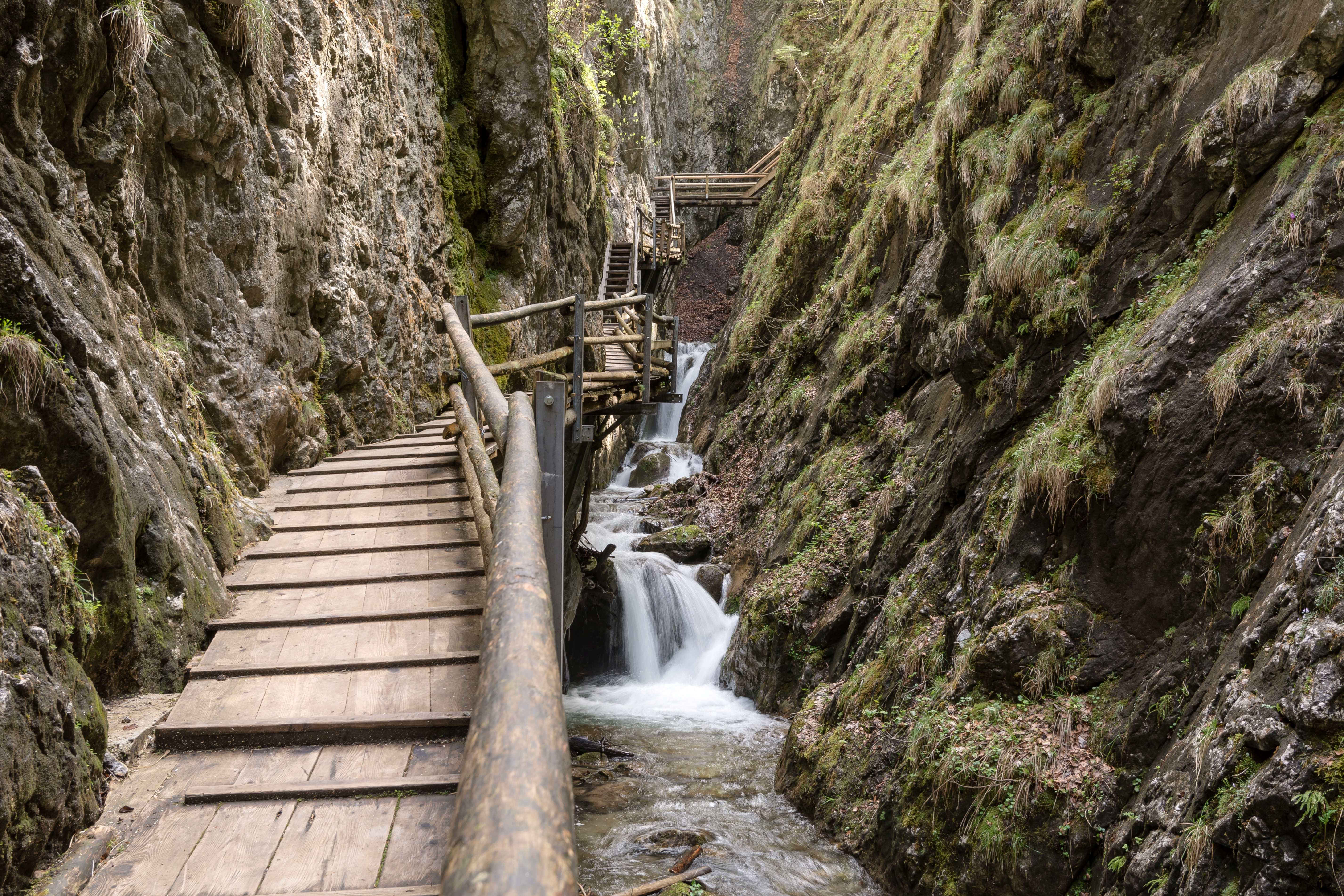 The ravine Dr.-Vogelgesang-Klamm is in the second place among the longest ravines in Austria which can be accessed by walkers. It is named after the medical practitioner Dr. Vogelgesang who was the initiator of erection of the pedestrian bridges trough the ravine. This media shows the natural monument in Upper Austria with the ID nd181.